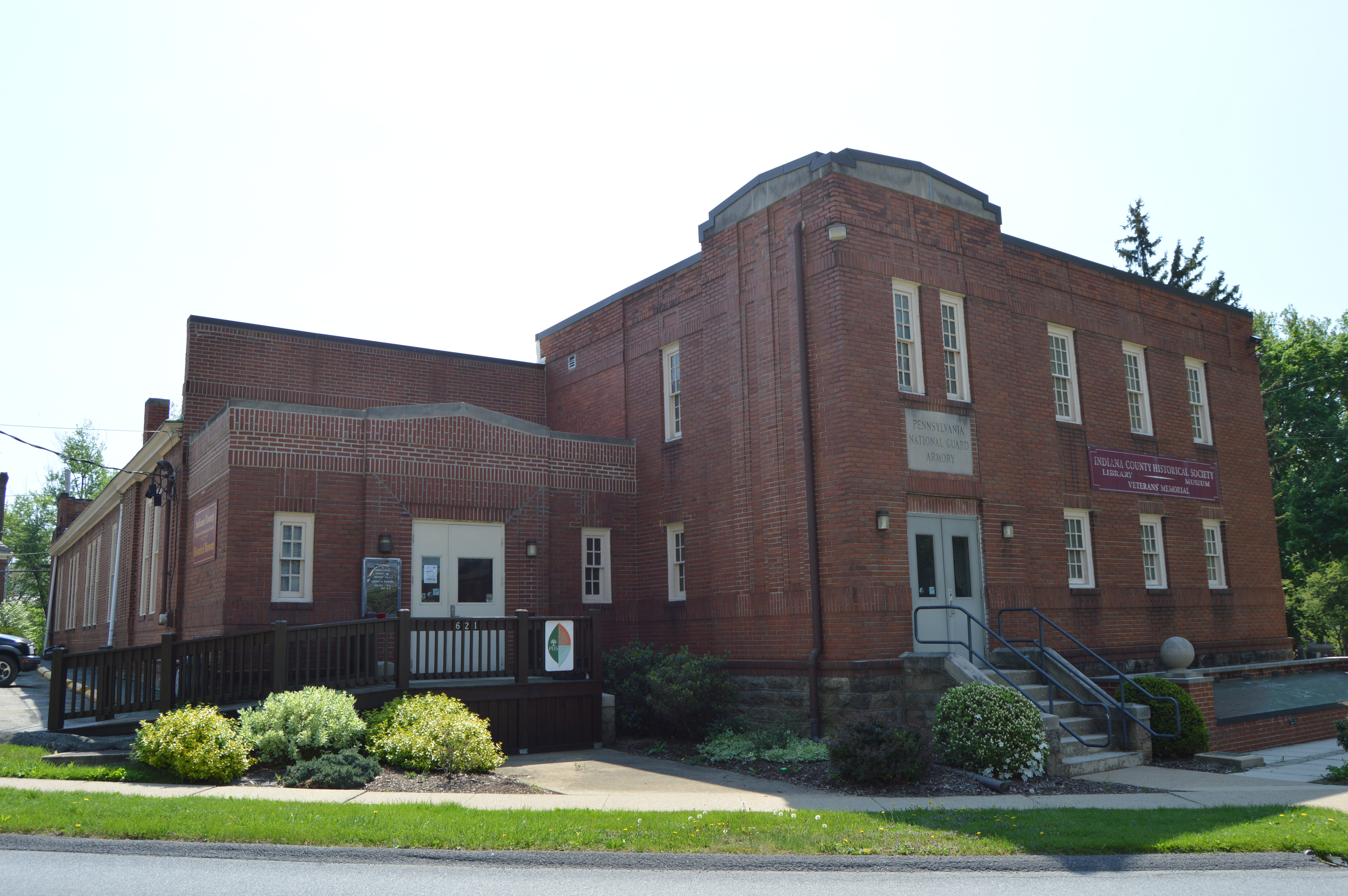 Northern side and front of the former Indiana Armory (now a history museum), located at 621 Wayne Avenue in Indiana, Pennsylvania, United States. Built in 1922, it is listed on the National Register of Historic Places.